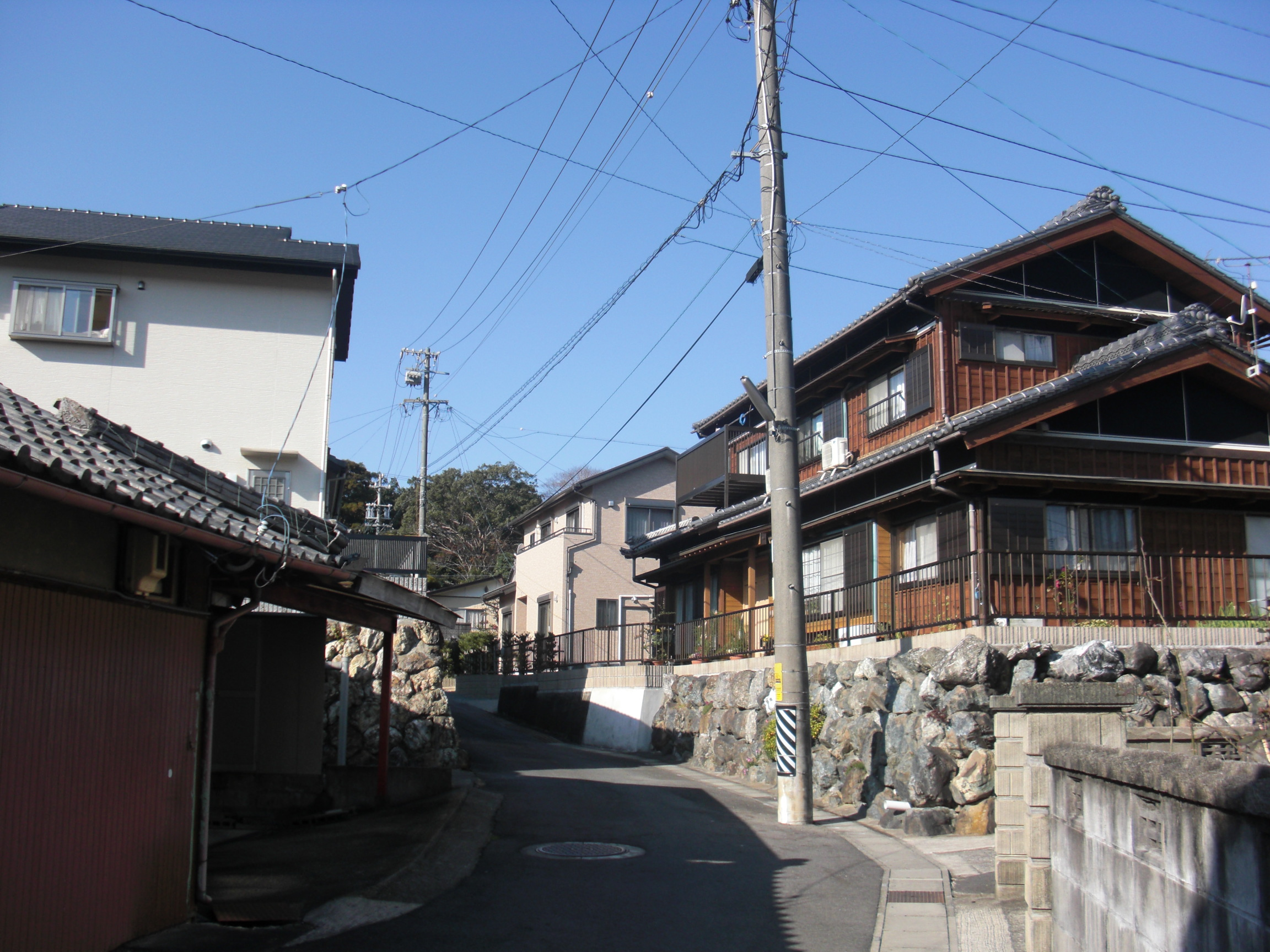 This is a landscape of Isobecho-Kaminogo, Shima city, Mie prefecture, Japan.